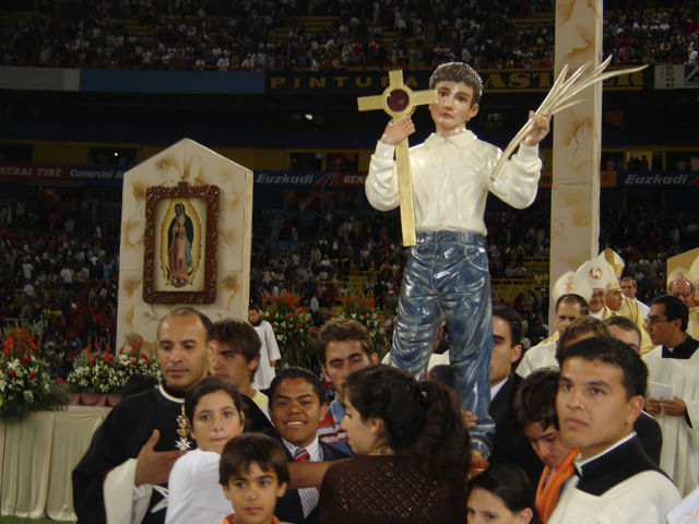 beatification of José Luis Sanchez del Rio in the stadium of Guadalajara Mexico